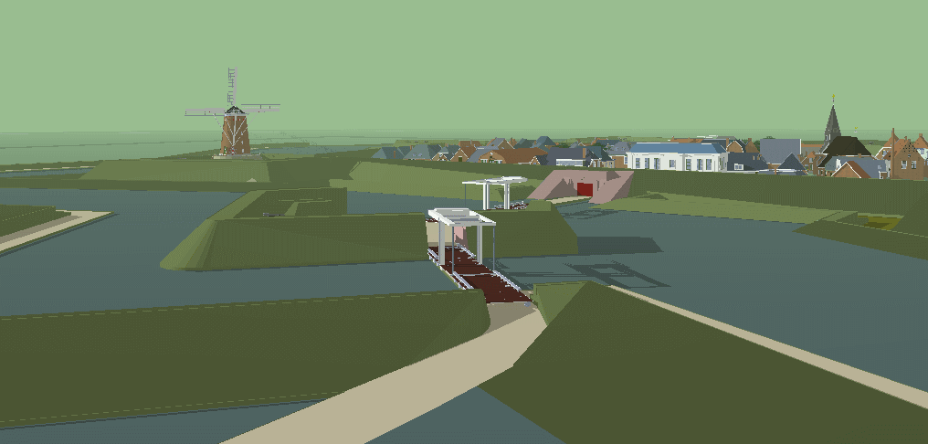 Reconstruction of Misterpoort citygate Bredevoort, the Netherlands